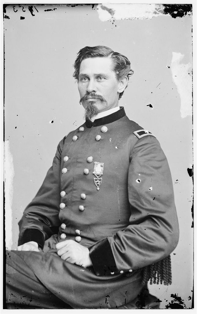 Portrait of Orlando Poe from the Library of Congress.